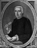 Giulio Cordara is an Italian Jesuit and historian